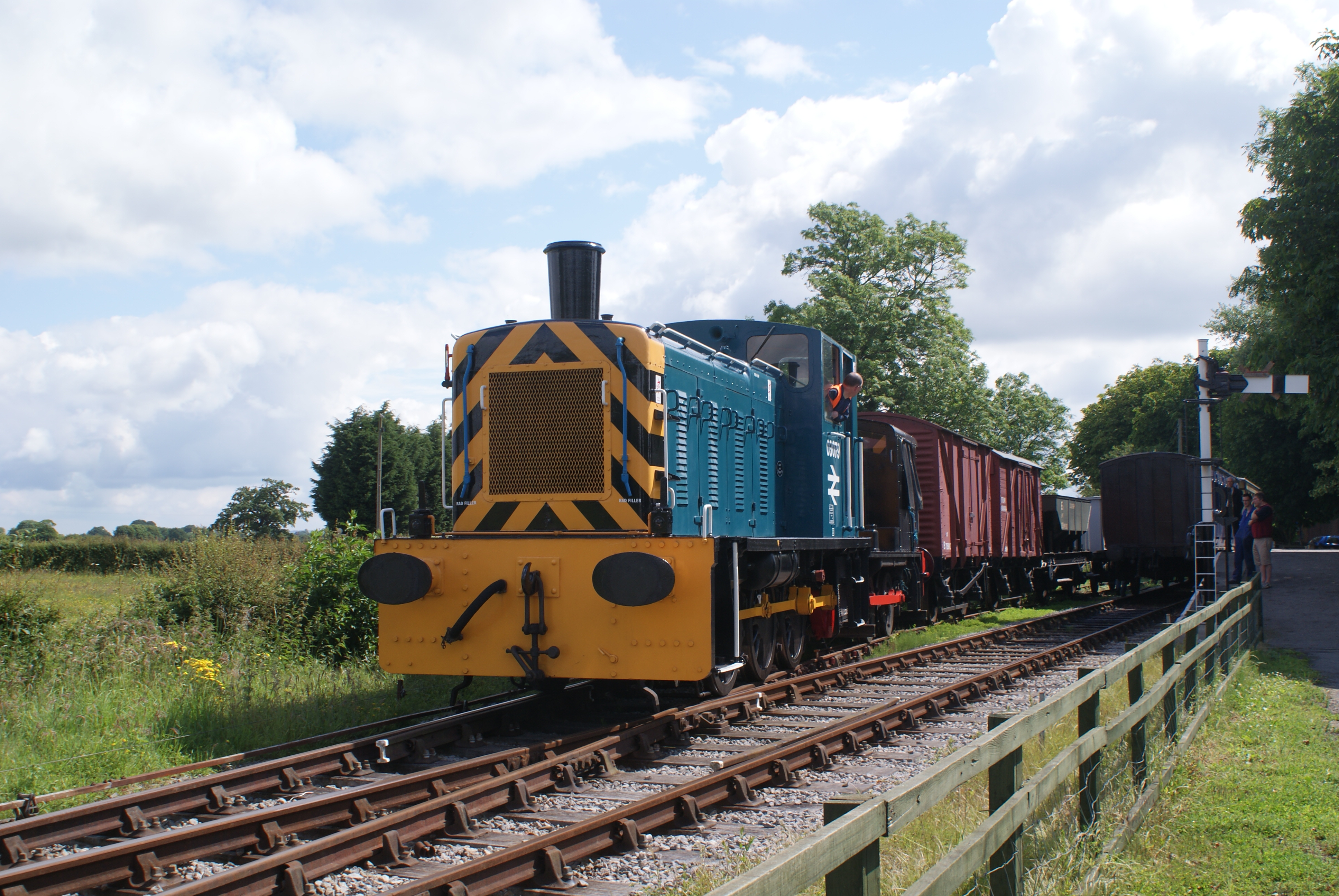 British Rail Class 03 number 03079 shunting on the Derwent Valley Light Railway near York, England